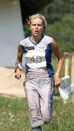 World Orienteering Championships 2007 in Kiev, Ukraine. On photo Finn Minna Kauppi.